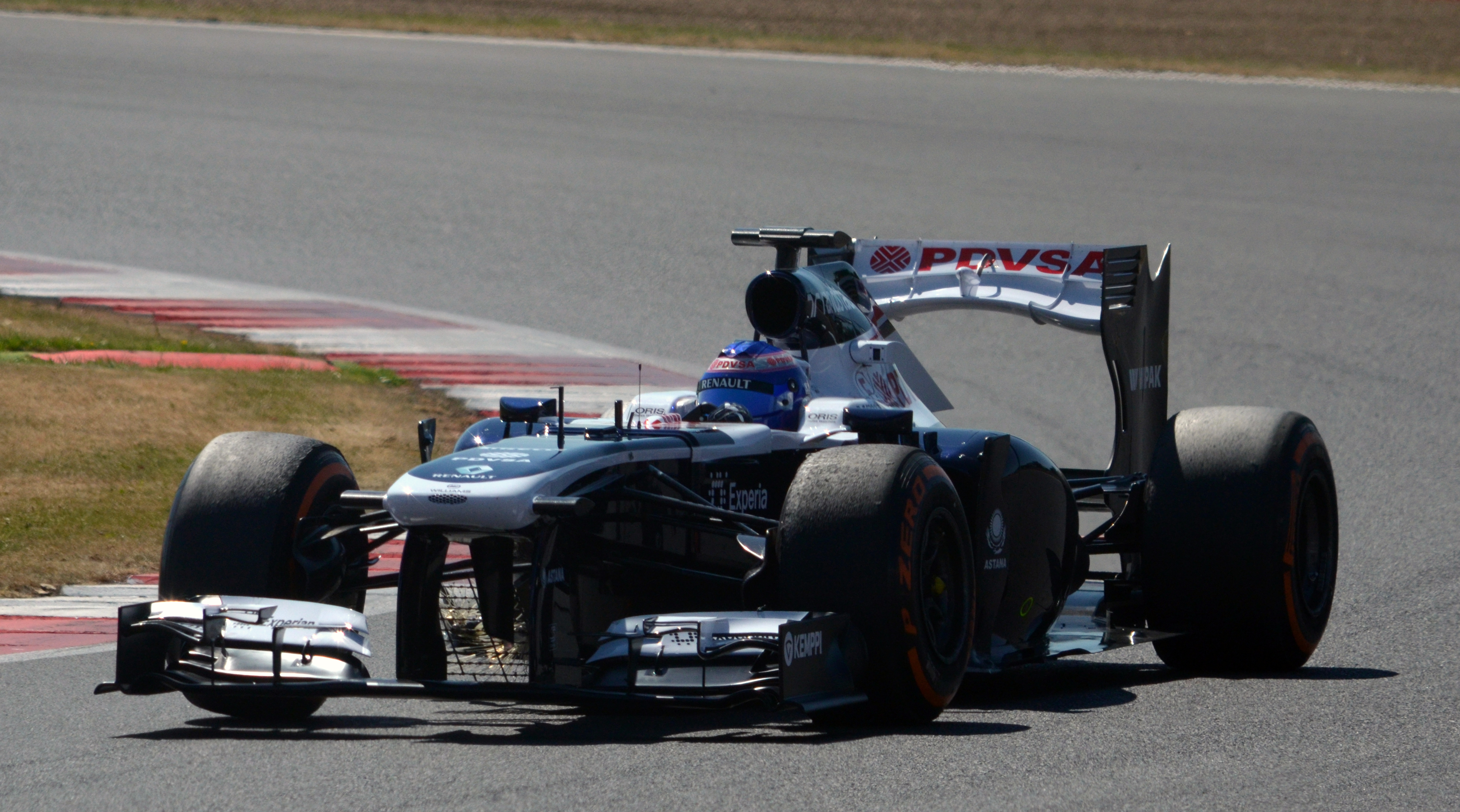 Susie Wolff driving the Williams Renault at the Young Drivers' Test at Silverstone on 19th July 2013. She posted the 9th fastest time of the day, 1m35.093s, after completing 89 laps.